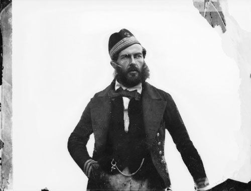 Captain Edward Augustus Inglefield Reproduction ID: G04259 Maker: Unknown Date: 1854